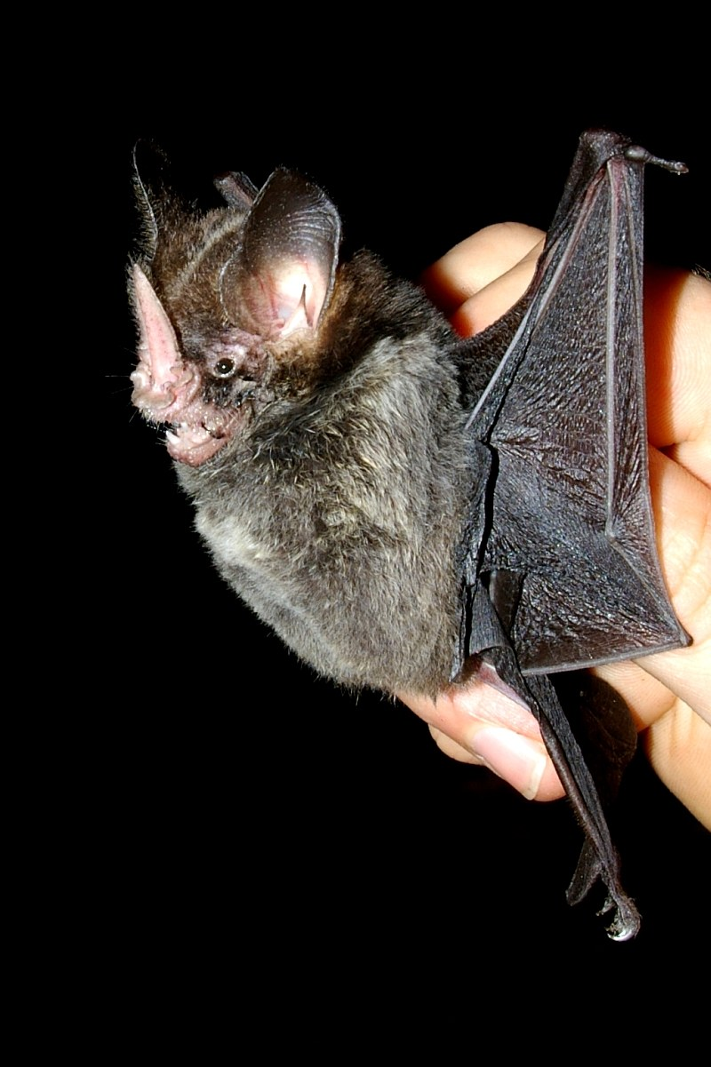 Mimon crenulatum